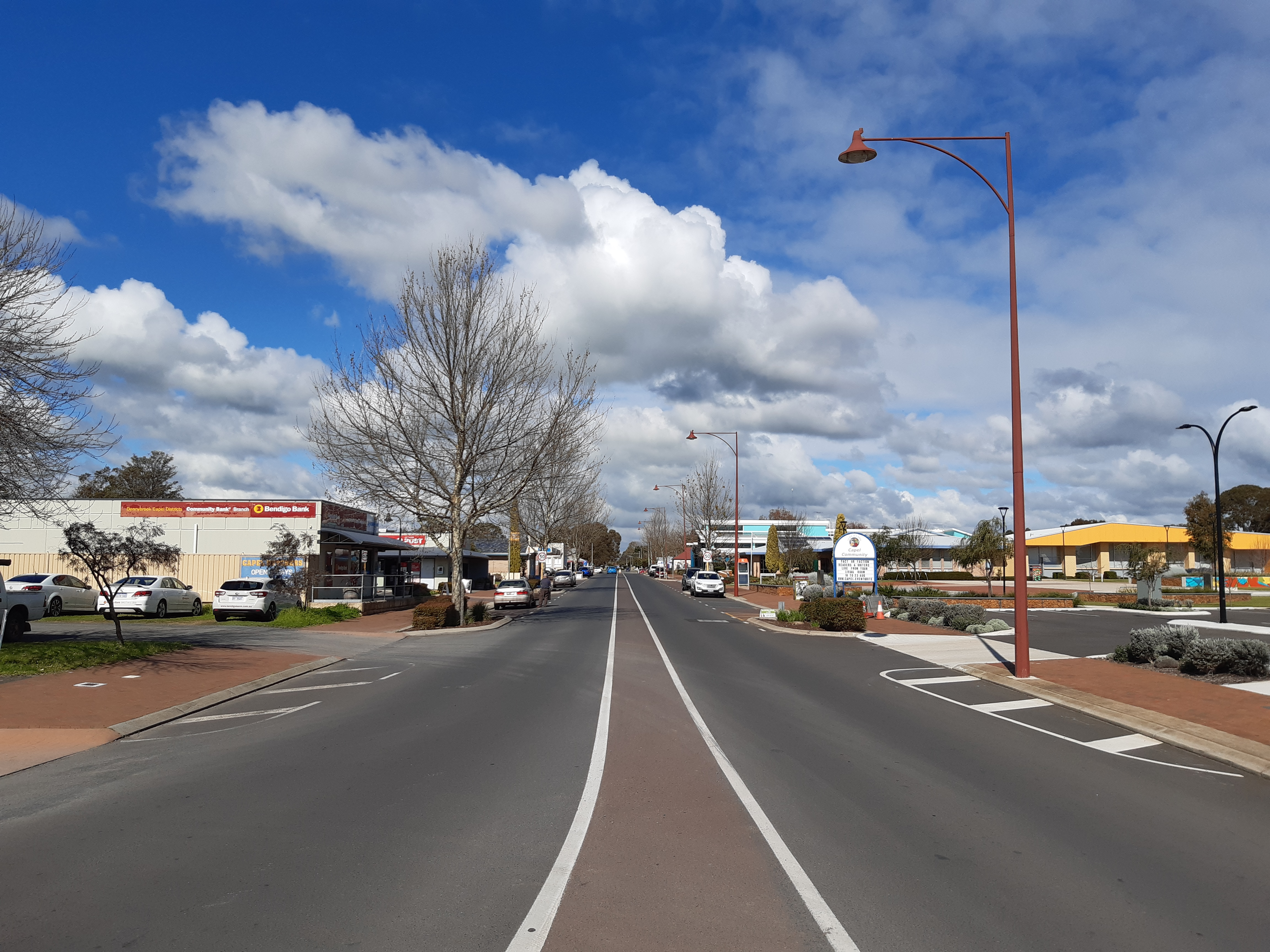 Forrest Road, Capel, Western Australia, the main street in town seen from the north.